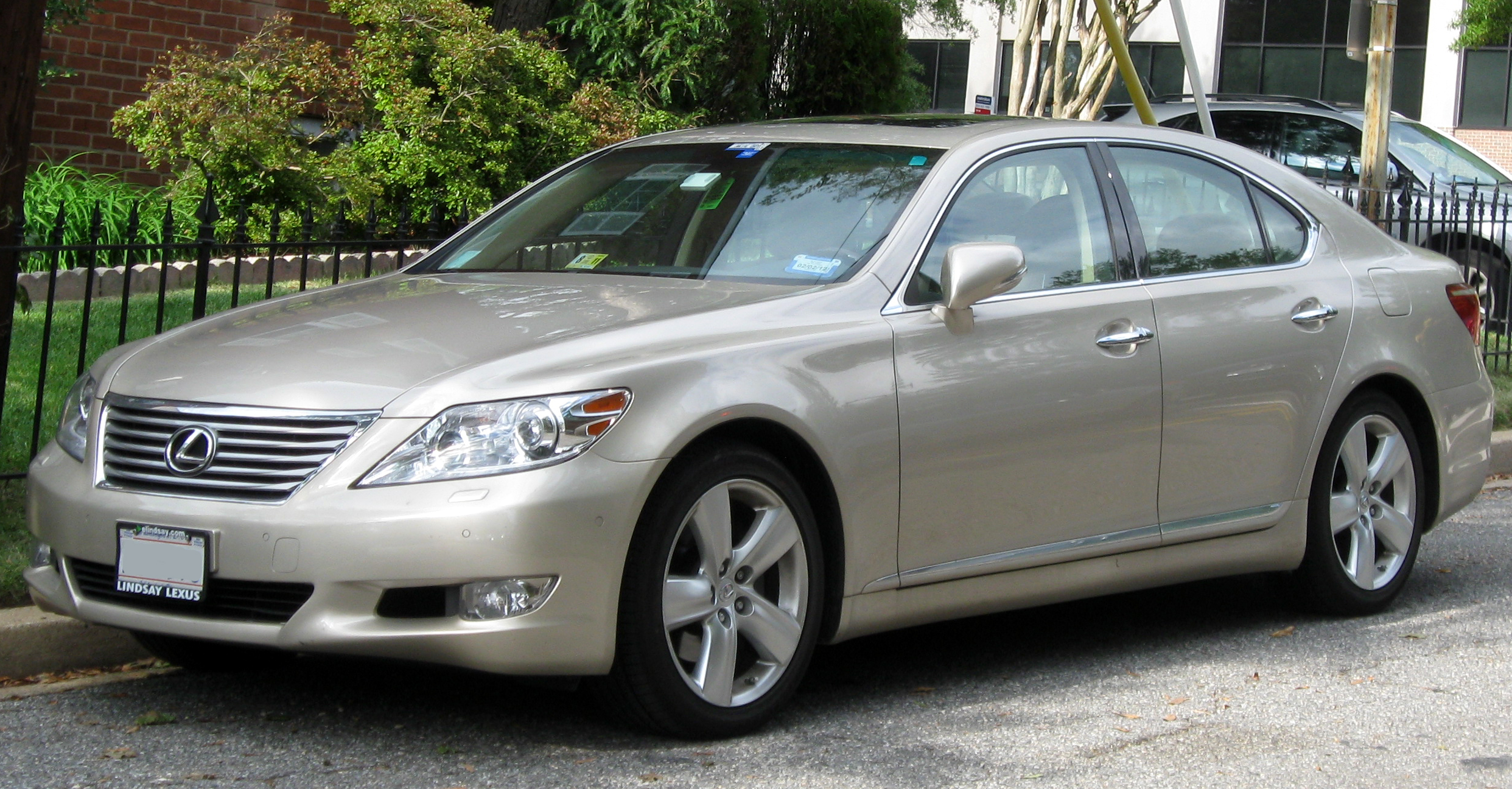 2010-2012 Lexus LS460 photographed in Washington, D.C., USA.